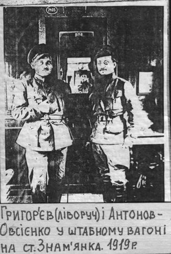 Nikifor Grigoriev